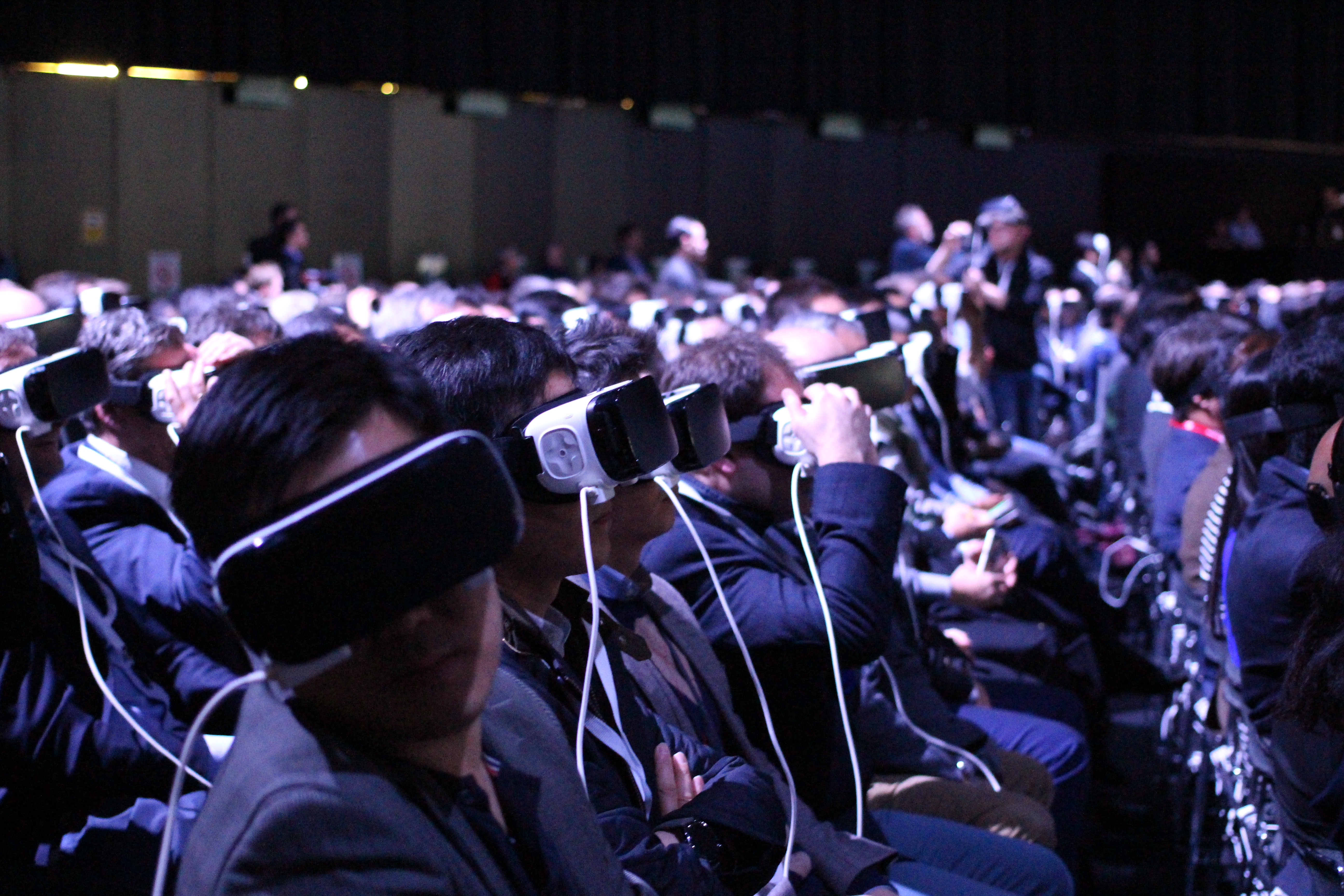 Samsung's Virtual Reality MWC 2016 Press Conference